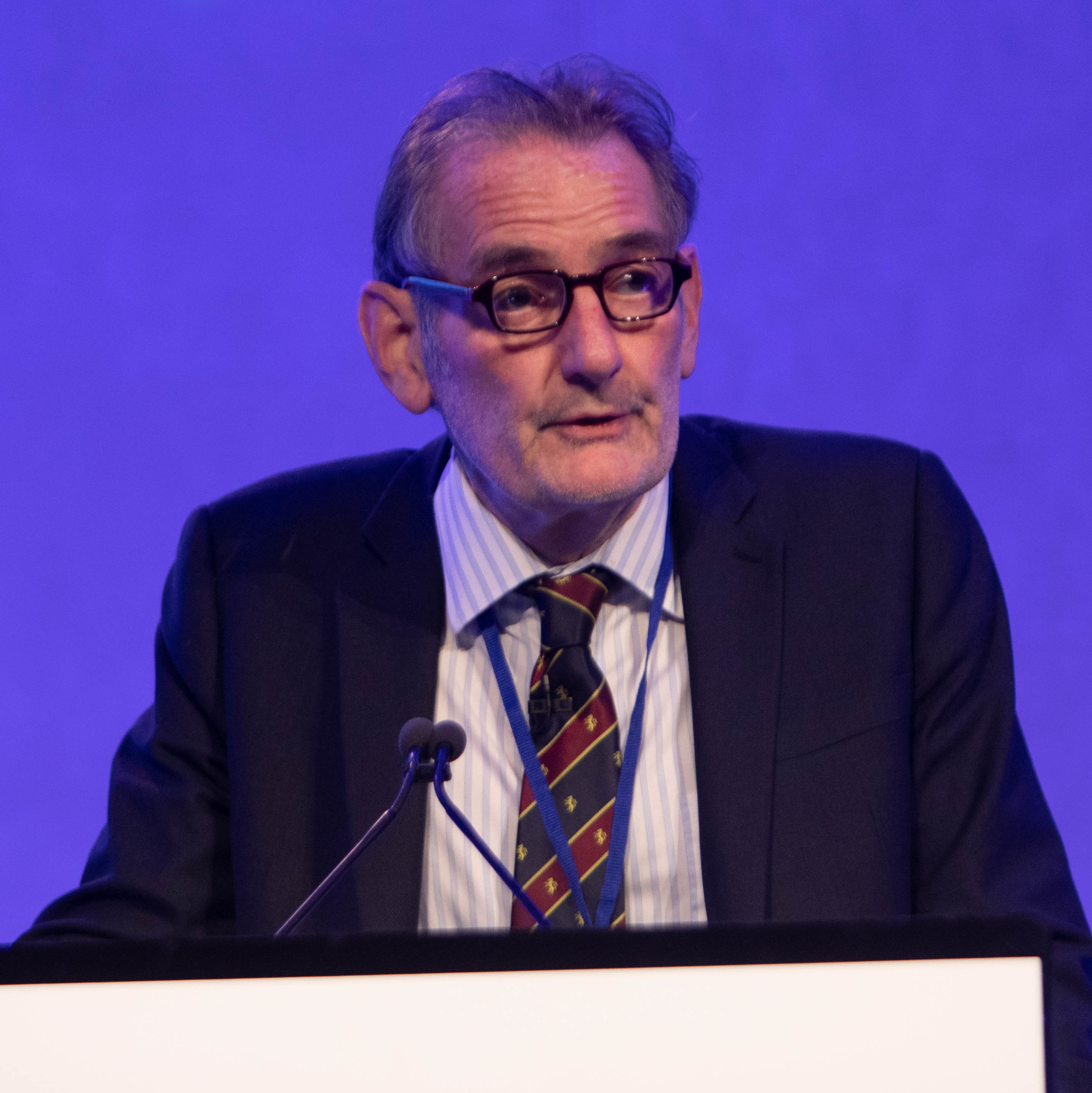 Safeguarding 2018 Conference Professor Sir Ian Diamond, Chair of DFID's Independent Science and Research Advisory Group speaks at the Safeguarding Conference in London. 18/10/2018 ©DFID/MichaelHughes